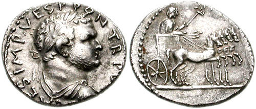 TITUS. As Caesar, 69-79 AD. AR Denarius (18mm, 3.52 g, 5h). Judaea Capta issue. Antioch mint. Struck 72 AD. [T] CAES IMP VESP PON TR PO[T], laureate, draped, and cuirassed bust right, seen from behind No legend, Titus in quadriga right, holding sceptre and olive branch. RIC II 368 (Vespasian); RPC II 1935; Hendin 789; BMCRE 521; BN 324; RSC 395. Good VF.